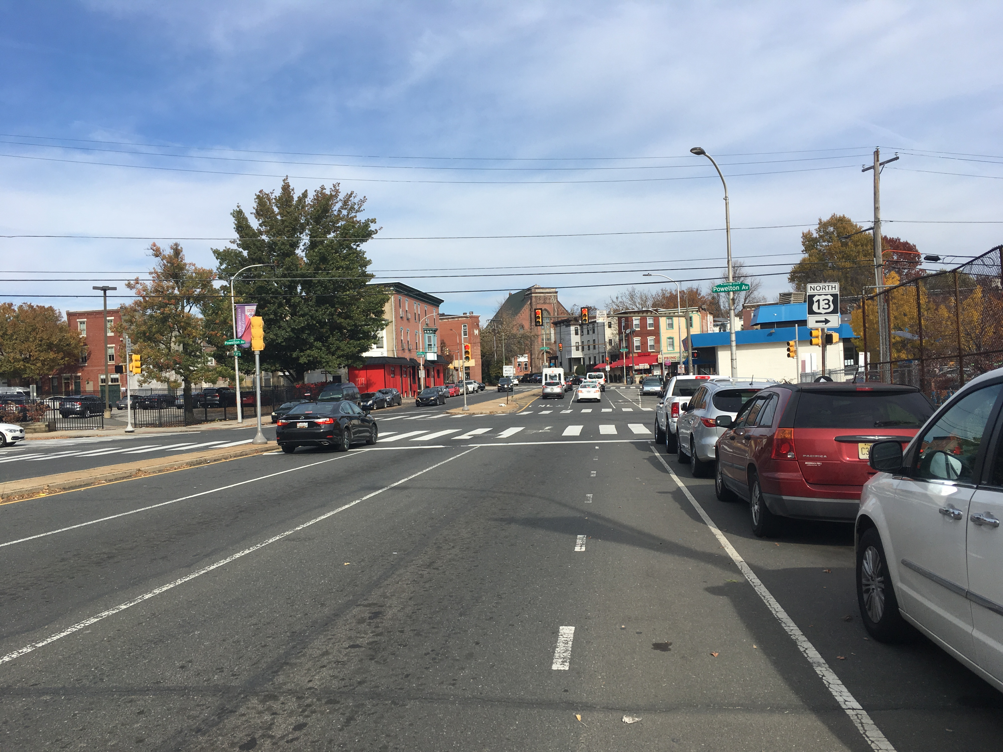 Northbound U.S. Route 13 (38th Street) approaching the intersection with Powelton Avenue, where the route makes a right turn onto Powelton Avenue, in Philadelphia, Pennsylvania